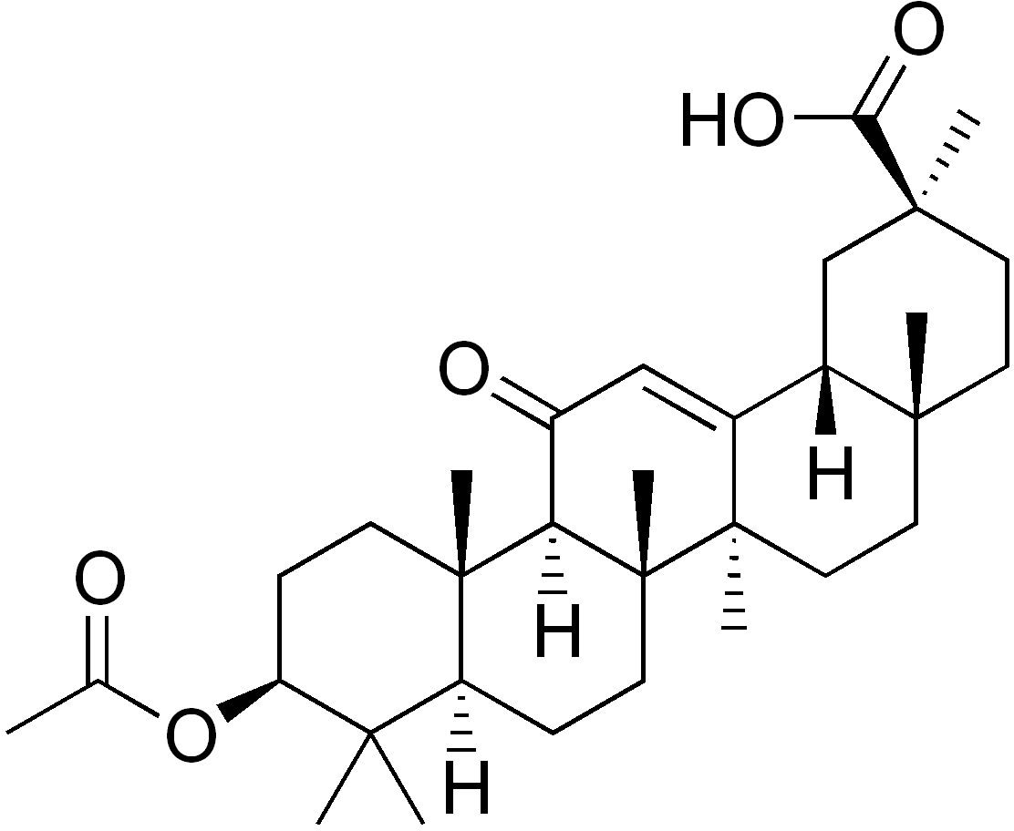 chemical structure of acetoxolone (acetylglycyrrhetic acid)